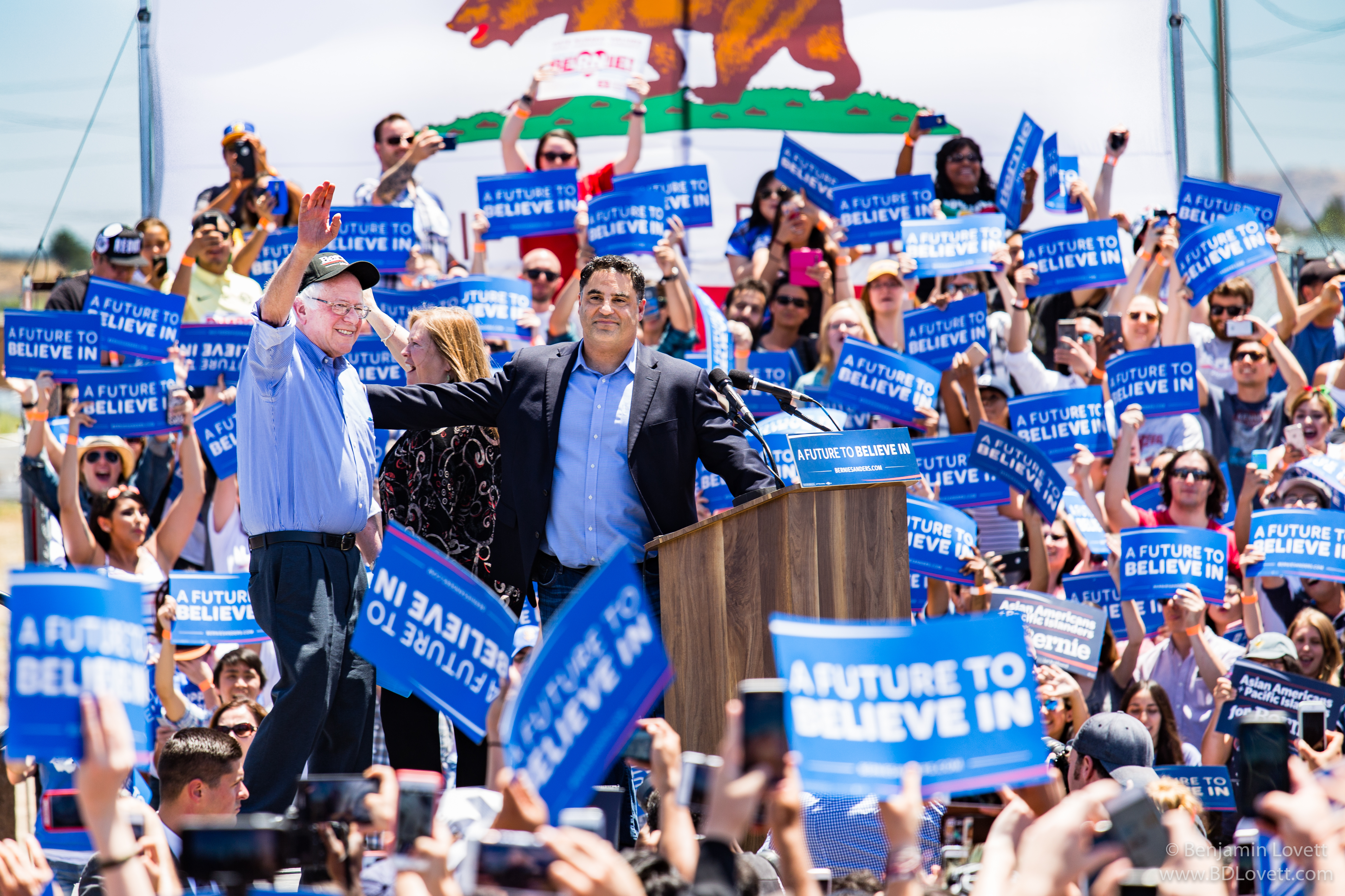 Bernie and Cenk and the San Jose Rally